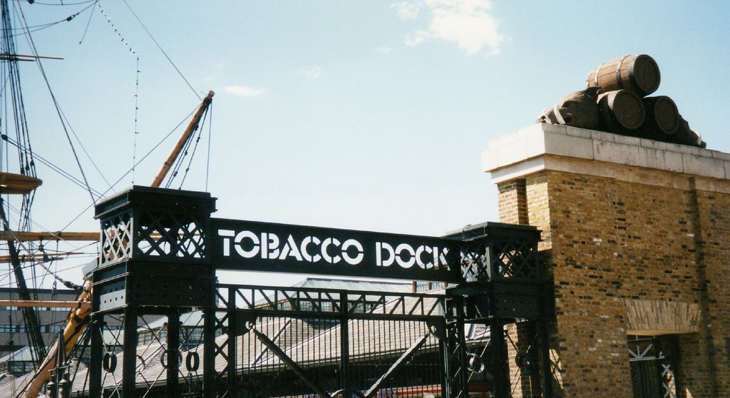 Summary:Entrance to Tobacco Dock, London, England Author:Jonathan SMITH